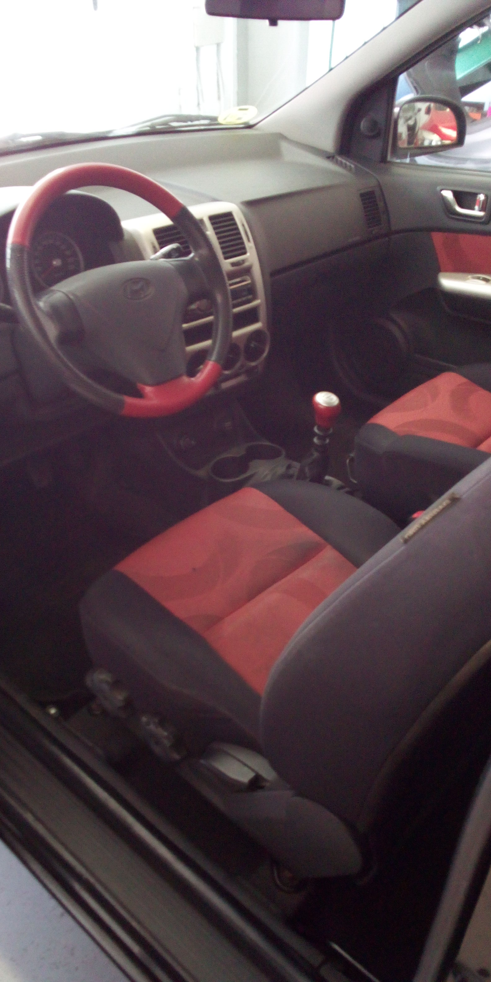 Interior of Hyundai Getz Limited Spanish Cup Edition